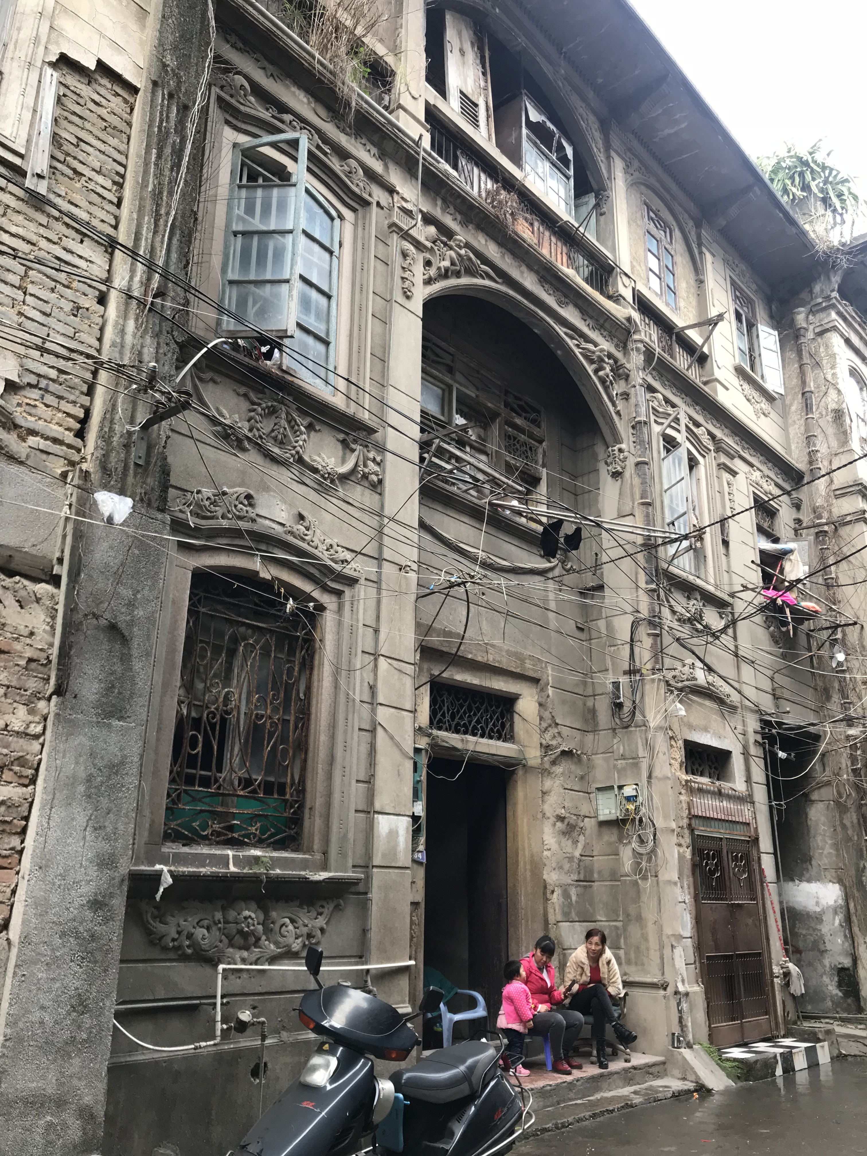 Mansion architecture typical of Shantou